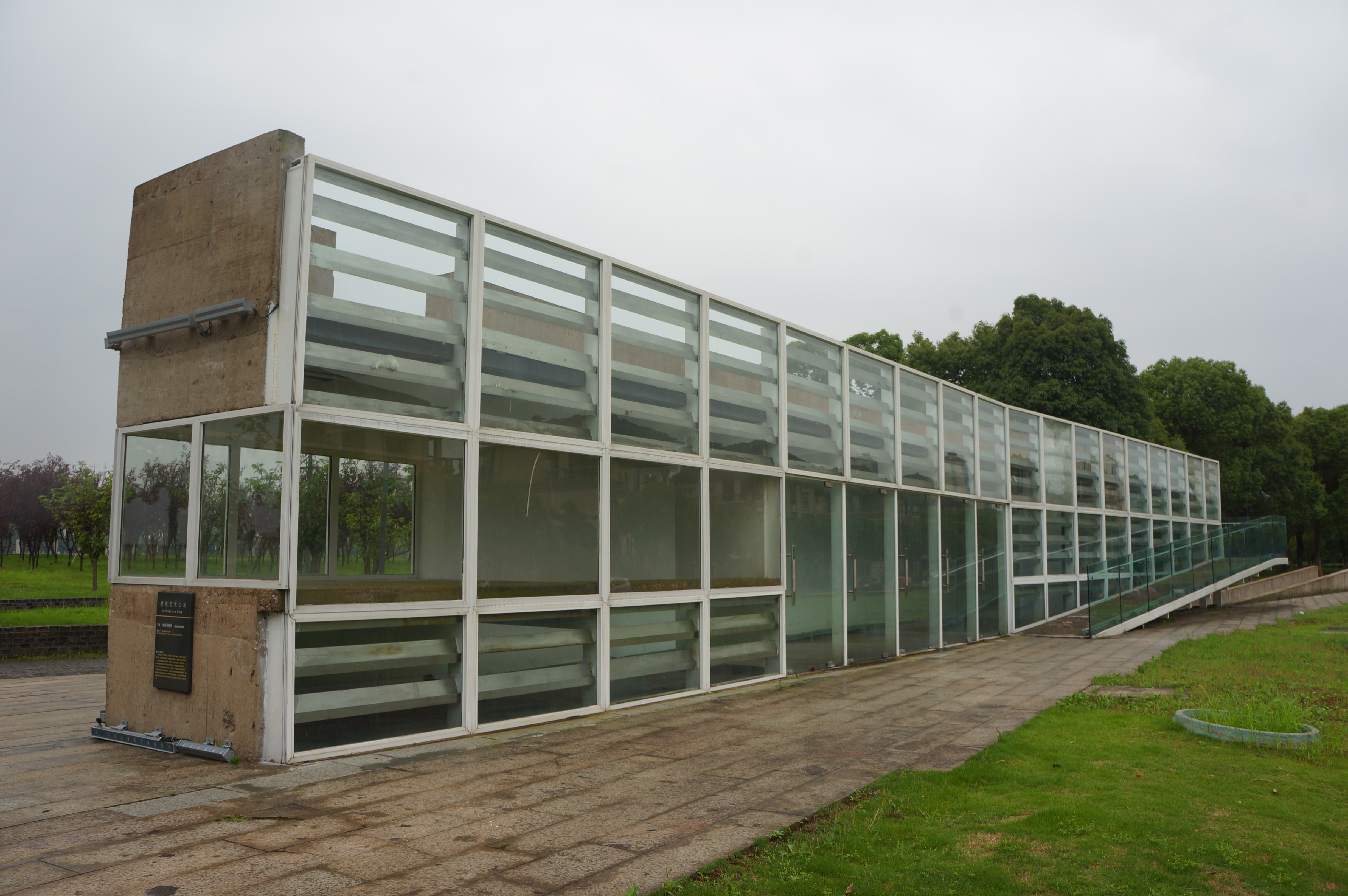 201805 Newsstand3